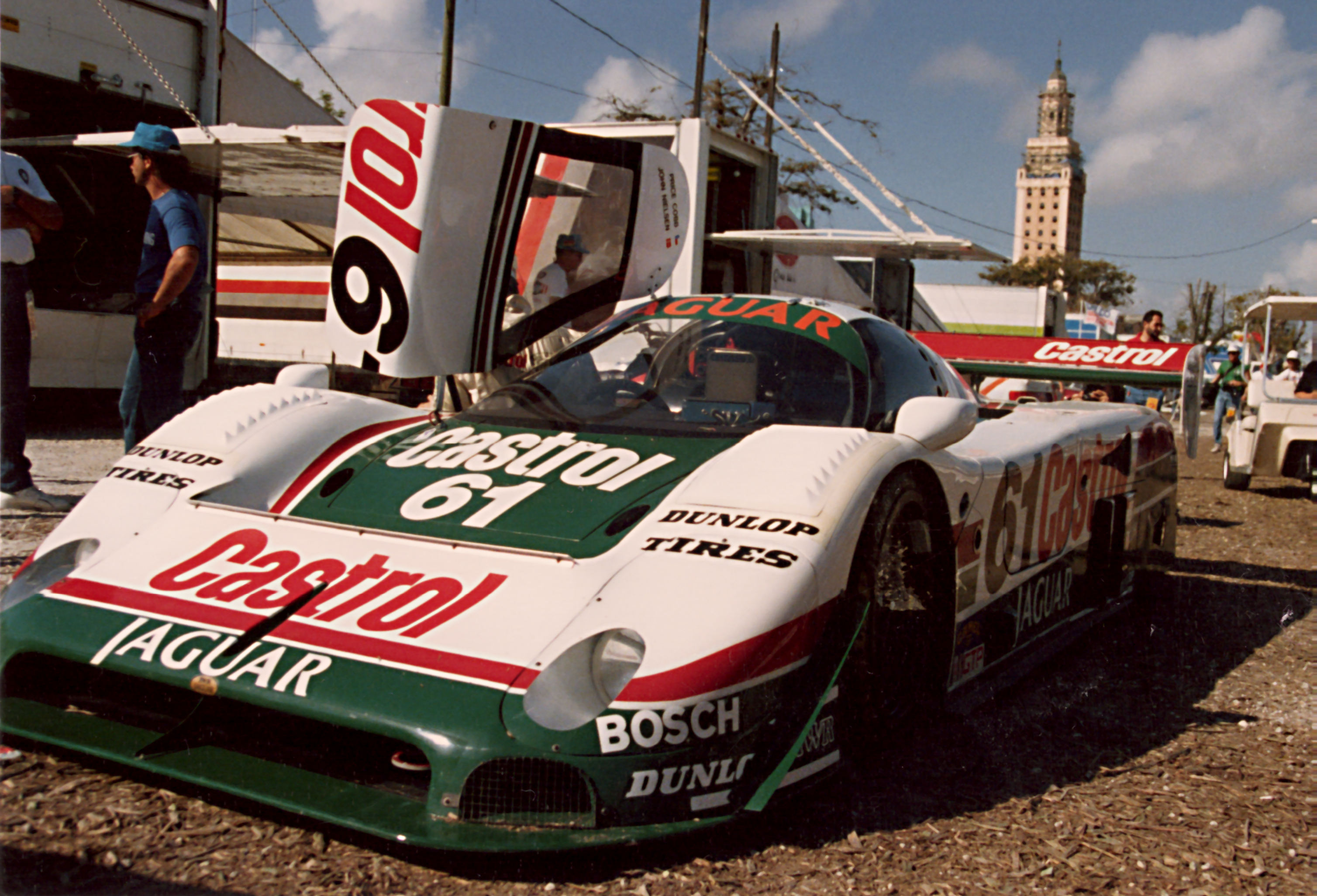 This is the IMSA GTP Jaguar XJR-9, car number #61, waiting in the paddock for the 1989 Miami Grand Prix, a few hours before the race. Price Cobb and John Neilsen were the drivers for this car.